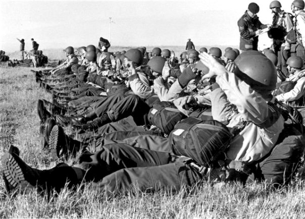 Parachute Qualification Course Image 4